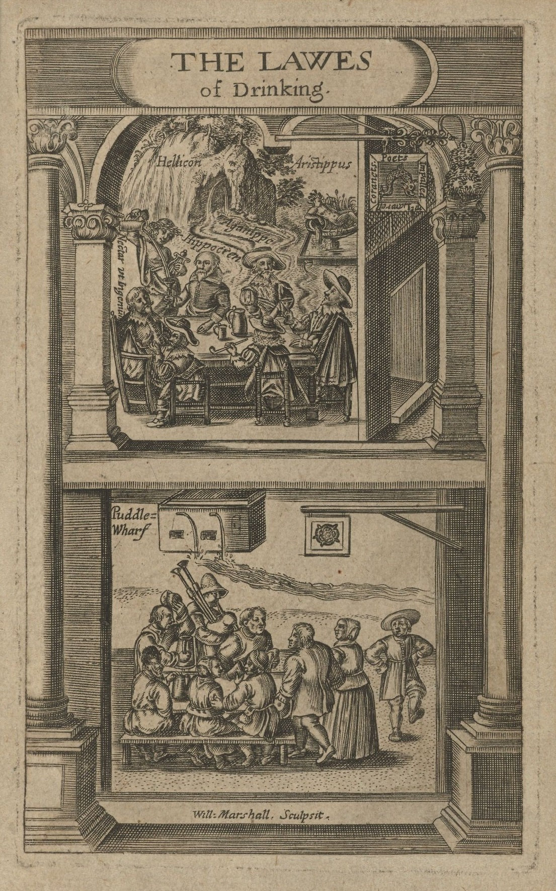 Frontispiece labled "The Lawes of Drinking" from A solemne ioviall disputation, theoreticke and practicke, briefely shadowing the law of drinking, 1617, by Richard Braithwait (1588-1673). Engraved by Will. Marshall. STC 3585, Houghton Library, Harvard University